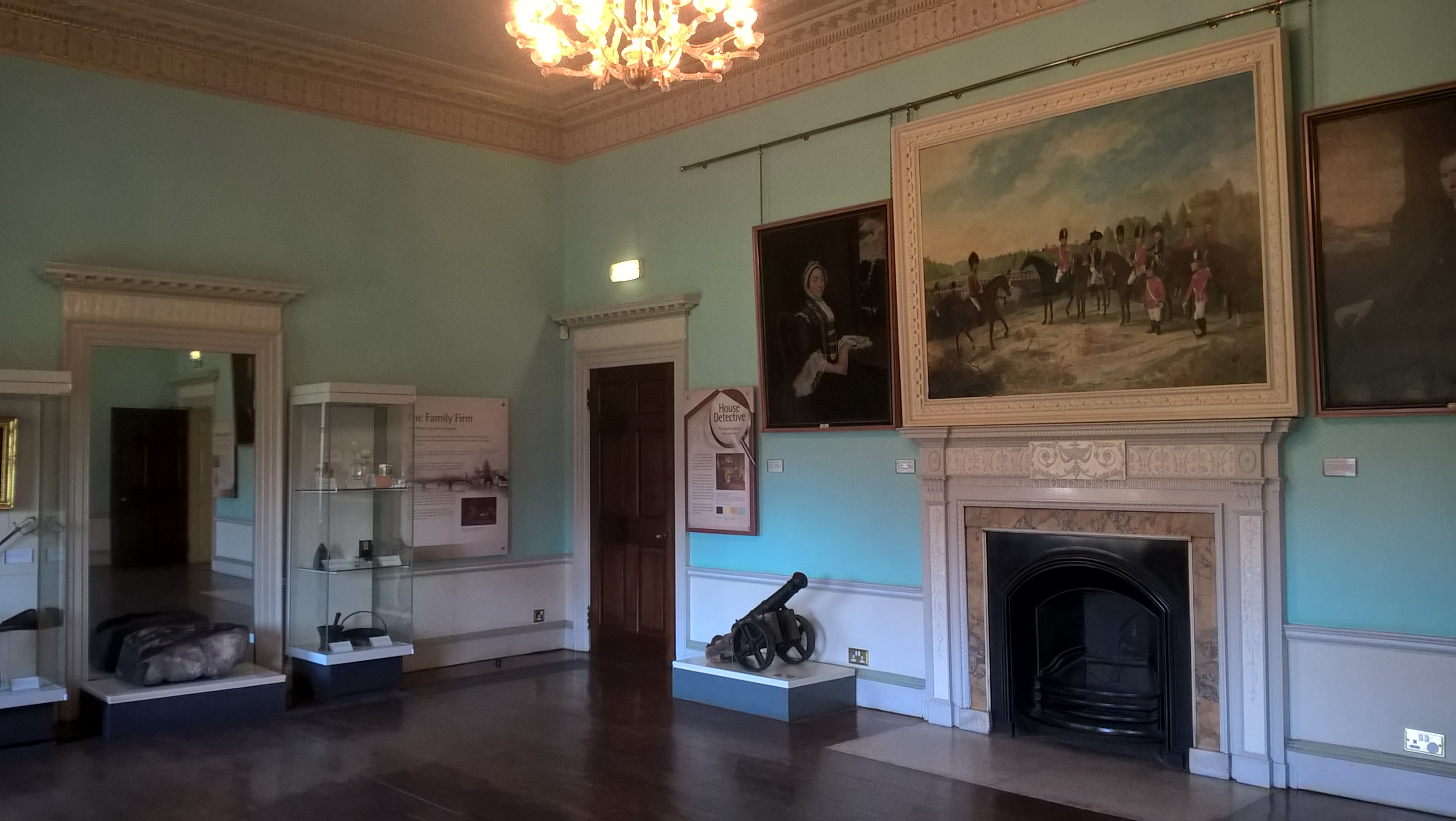 A room (possibly the Drawing Room) in Clifton House with various items as part of Clifton Park Museum. A fireplace, paintings, a mirror and chandelier. A small cannon by the fireplace.